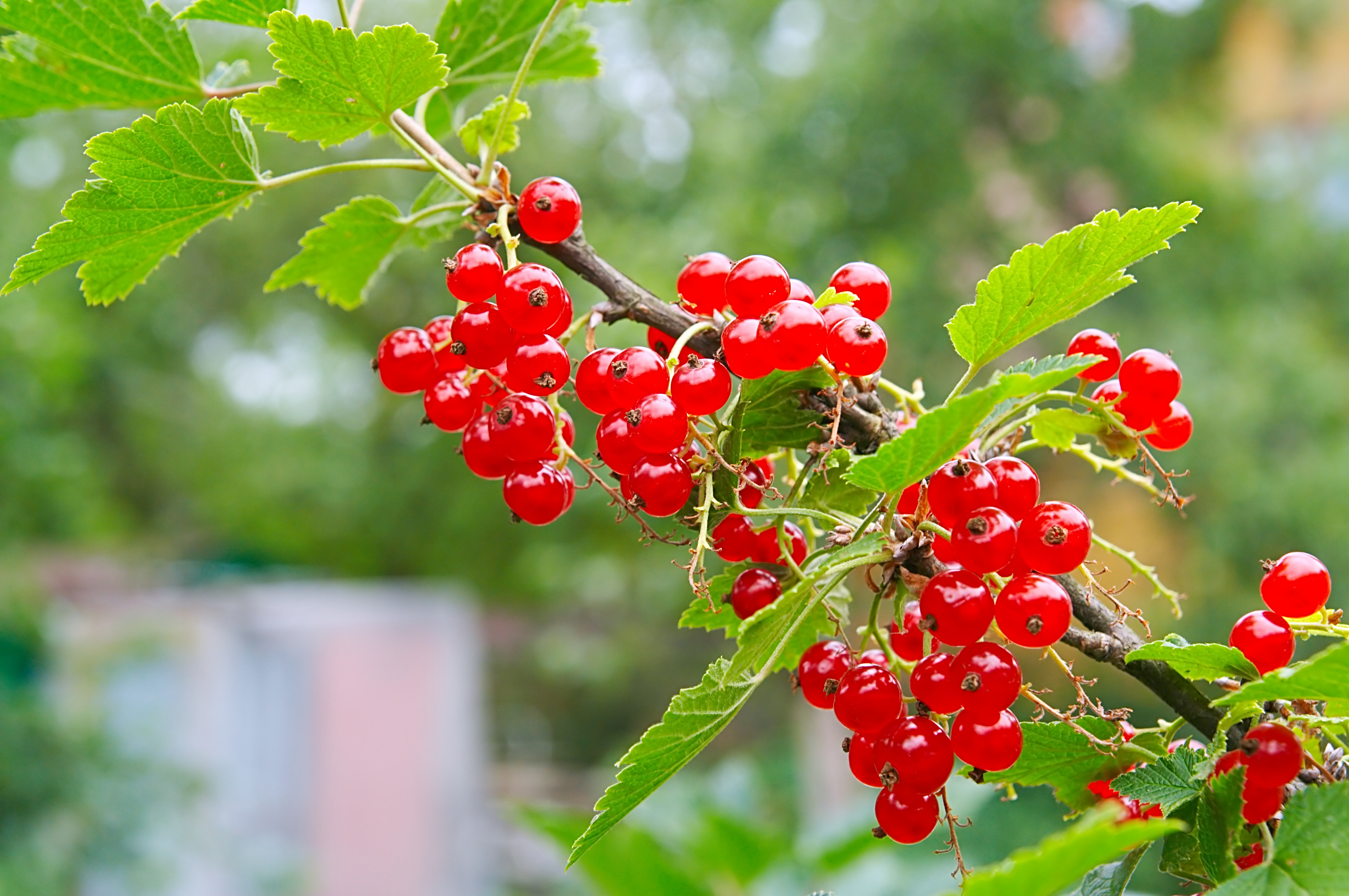 Red currant